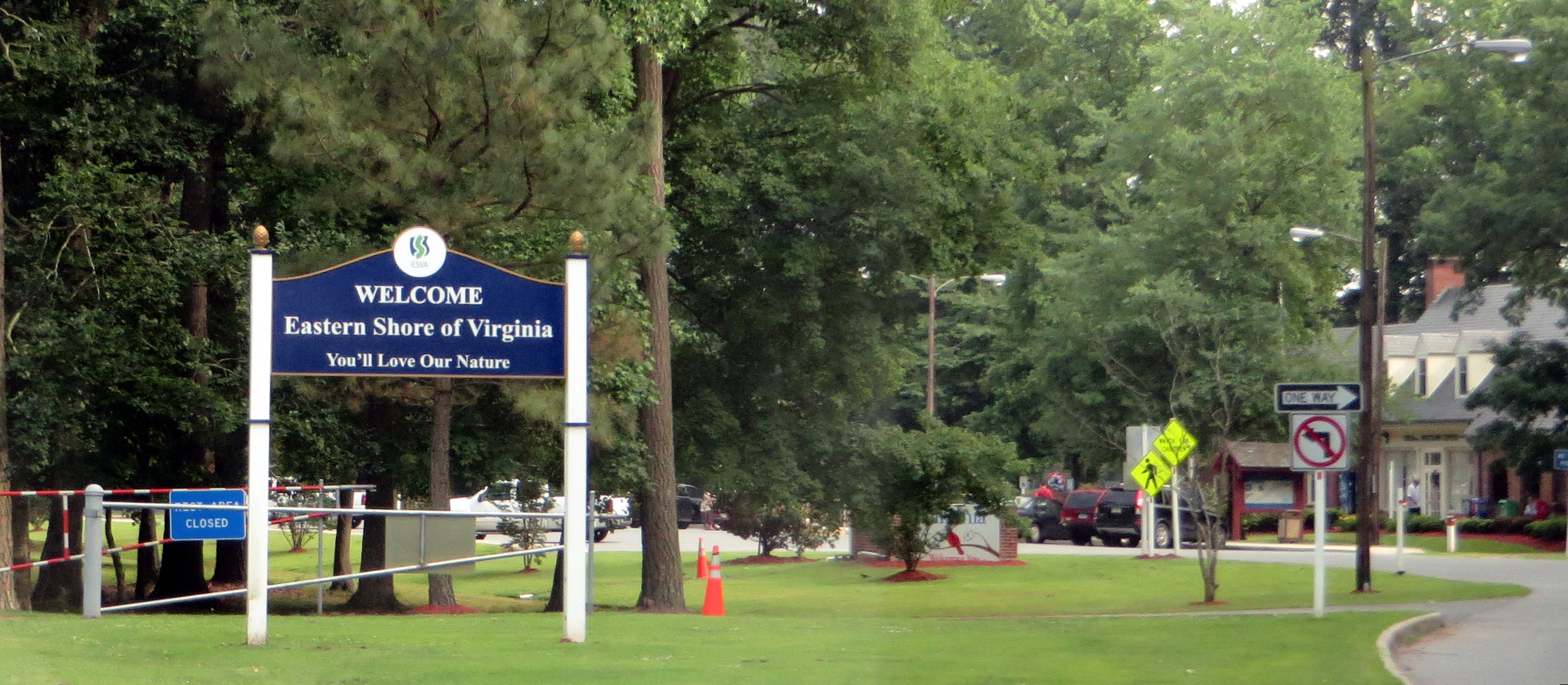 The Eastern Shore of Virginia consists of two counties (Accomack and Northampton) on the Atlantic coast of the Commonwealth of Virginia in the United States. The 70-mile (110 km)–long region is part of the Delmarva Peninsula and is separated from the rest of Virginia by the Chesapeake Bay. Its population was 45,553 as of 2010. The terrain is overall very flat, ranging from sea level to just 50 feet (15 m) above sea level. The rural area has been devoted to cotton, soybean, vegetable and truck farming, and large-scale chicken farms. Since the late 20th century, vineyards have been developed in both counties, and the Eastern Shore has received recognition as an American Viticultural Area (AVA). It is characterized by sandy and deep soil. The weather in the area has temperate summers and winters, significantly affected by the Chesapeake Bay and the Atlantic Ocean. The area includes barrier islands. At the northern end of the Atlantic side is the beach community of Chincoteague, famous for its annual wild pony roundup, gathered from Assateague Island. Wallops Flight Facility, a NASA space launch base, is located at Chicoteague. Tangier Island, off the western shore in the Chesapeake Bay, is another day-tourist destination. The Eastern Shore, geographically removed from the rest of Virginia, has had a unique history of settlement and development influenced by agriculture, fishing, tourism, and the Pennsylvania Railroad. The 23-mile (37 km) long Chesapeake Bay Bridge-Tunnel, which is part of U.S. Route 13, spans the mouth of the Bay and connects the Eastern Shore to South Hampton Roads and the rest of Virginia. Before the Bridge-Tunnel was built in 1964, a ferry provided the continuation of U.S. 13 across this stretch of water.